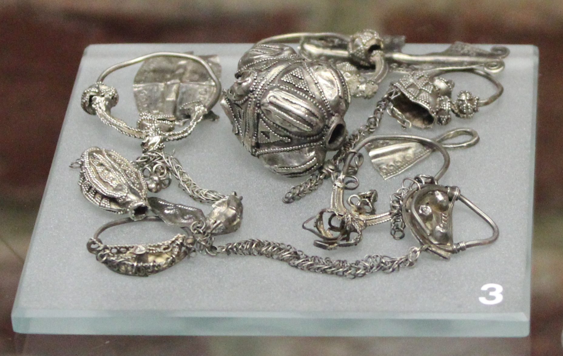 Silver jewellery from Kotowice treasure shown in Archeological Museum in Wroclaw.